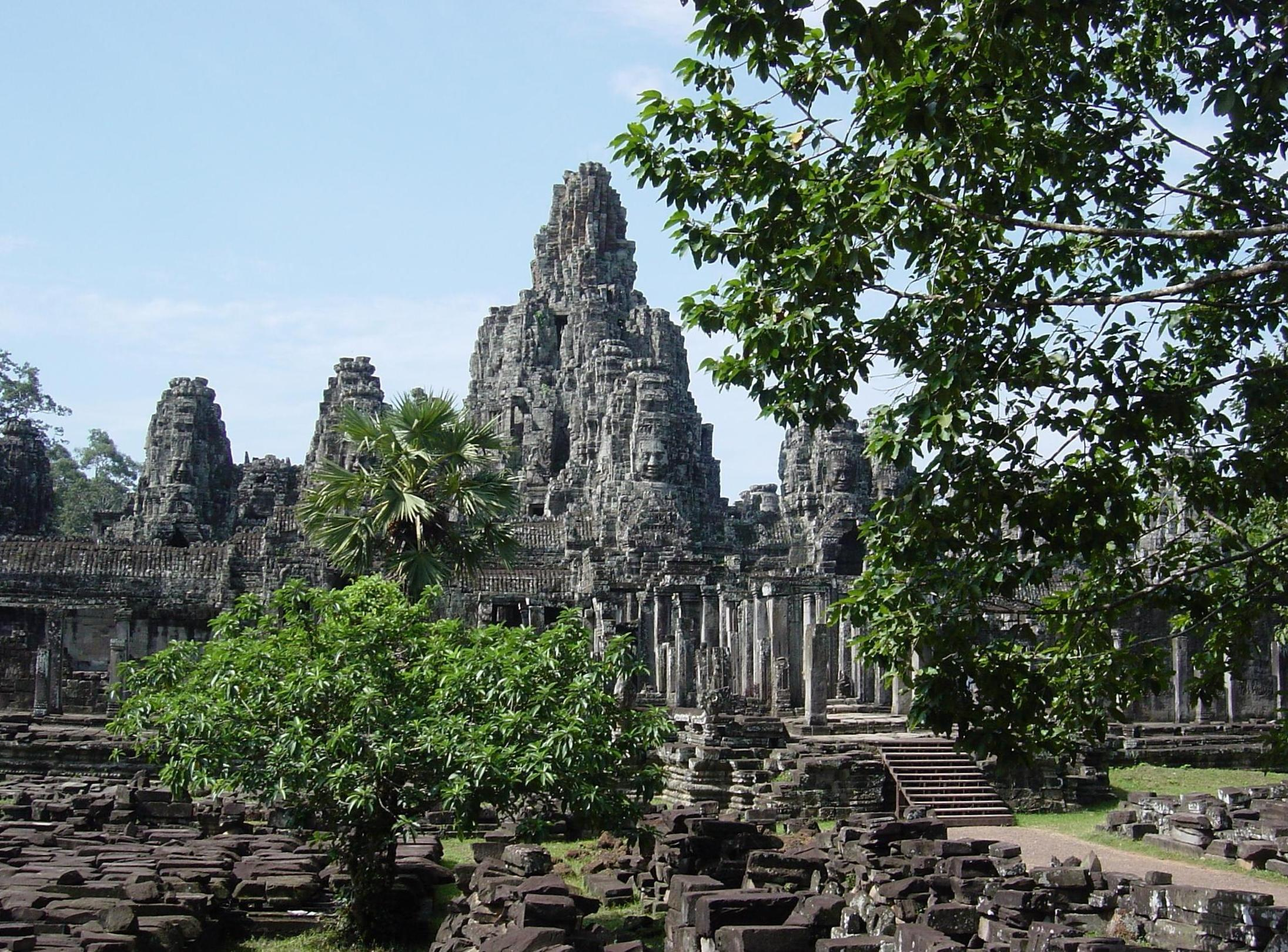 13th century Bayon Khmer Buddhist temple — at Angkor, Cambodia.